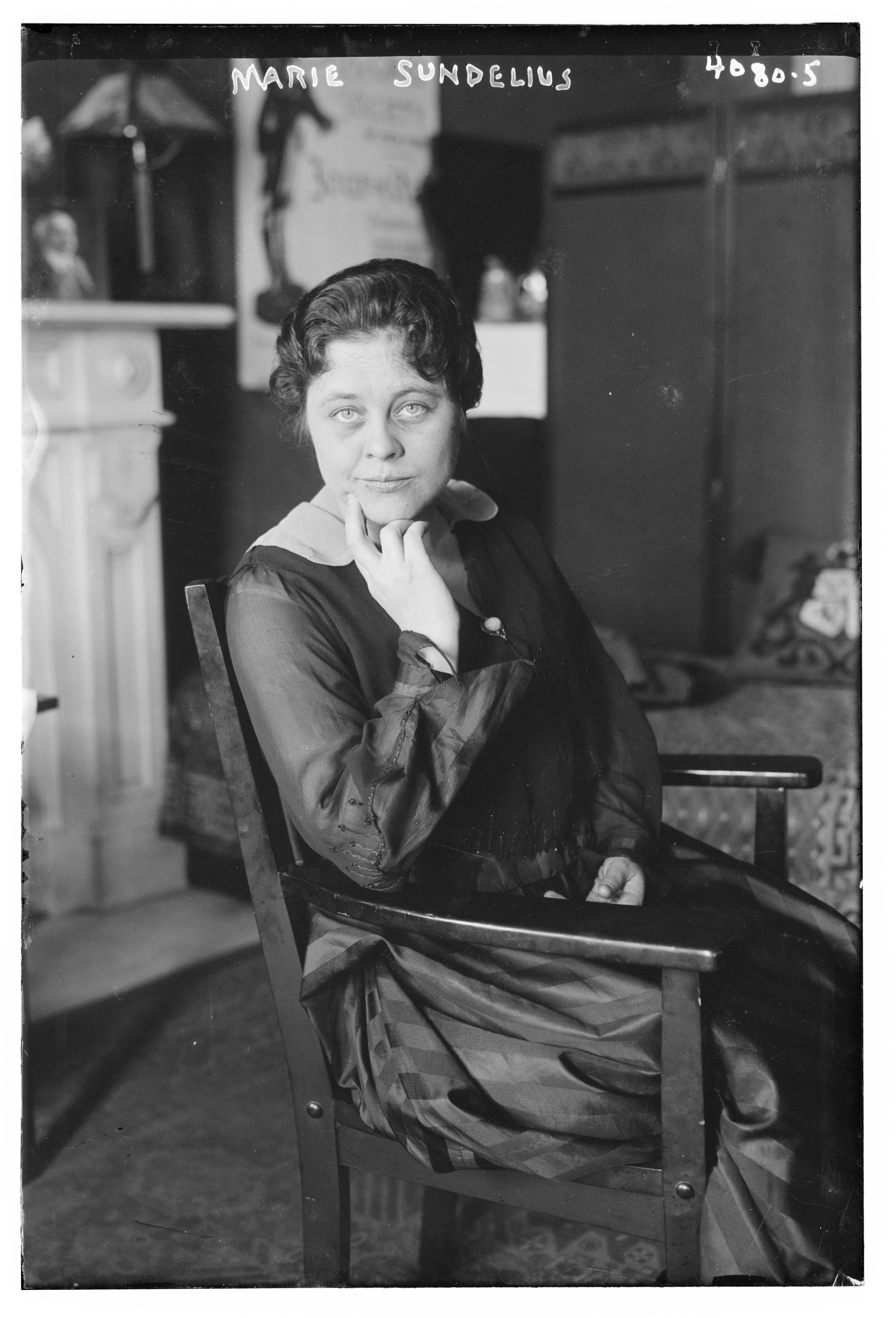 Marie Sundelius in 1916